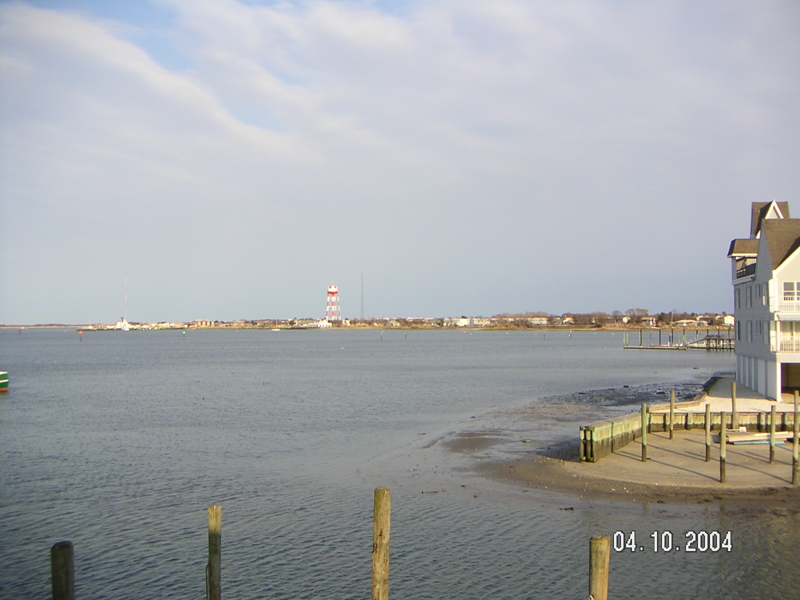 Cape May Harbor as seen from Devil's Reach. Cape May. Shot by Anthony Townsend (uploader), April 10, 2004